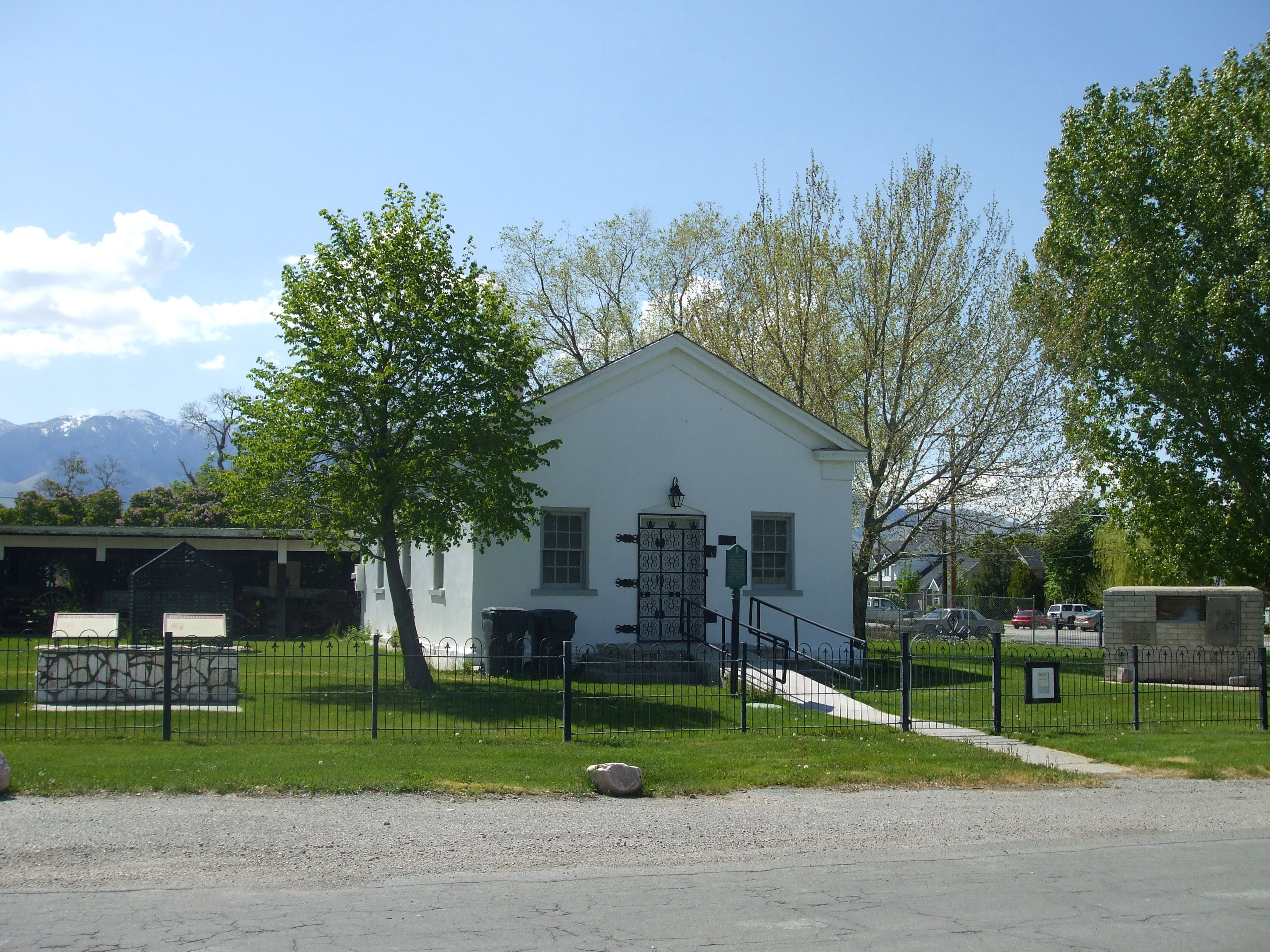 The Grantsville School and Meetinghouse, a historic building in Grantsville, Utah, United States, now houses the Donner-Reed Pioneer Museum, dedicated to the Donner Party.